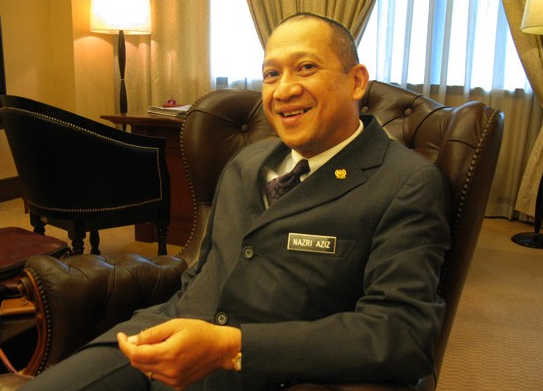 Datuk Seri Nazri Aziz interviewed during a press conference.